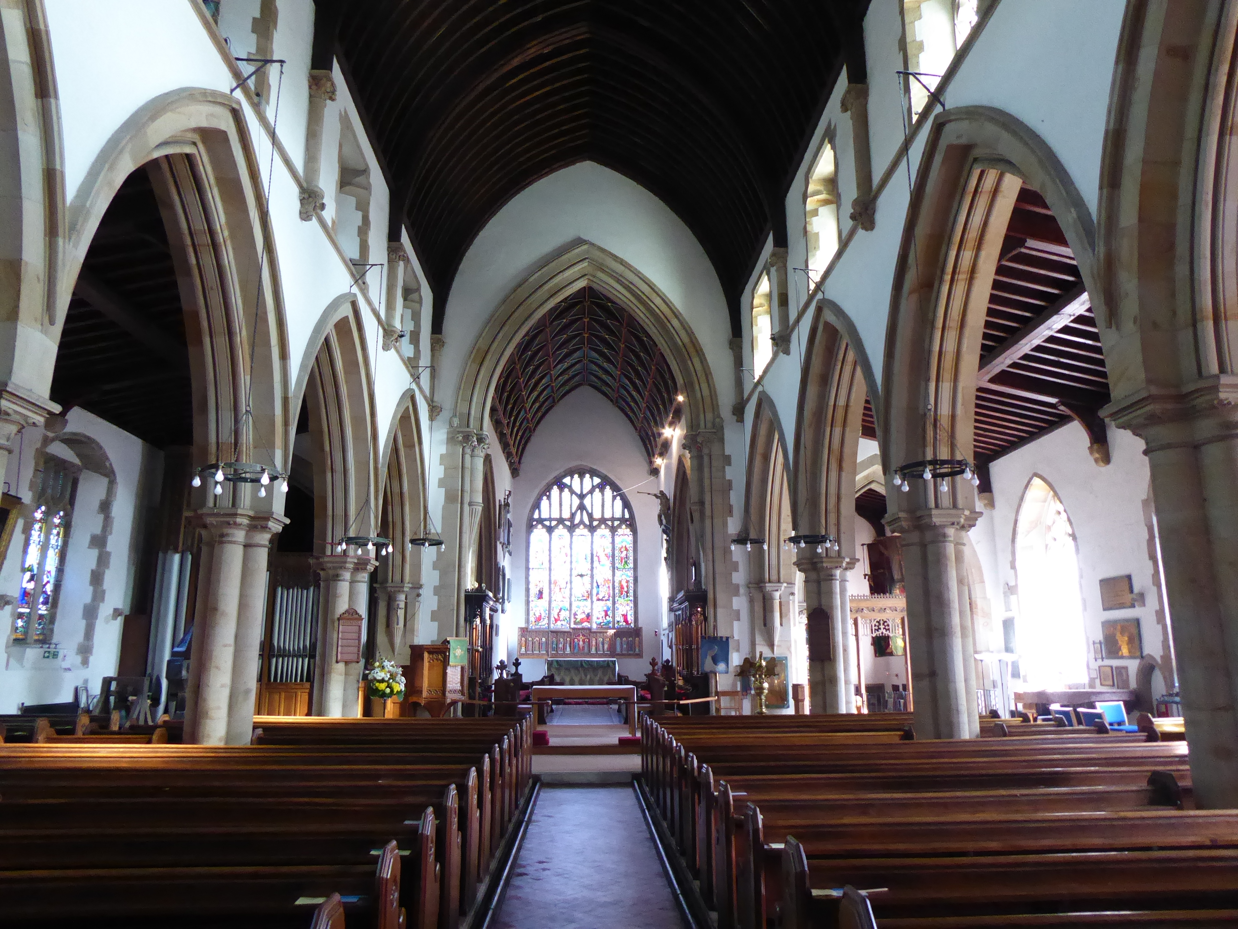 St Mary's Church, Richmond, Yorkshire